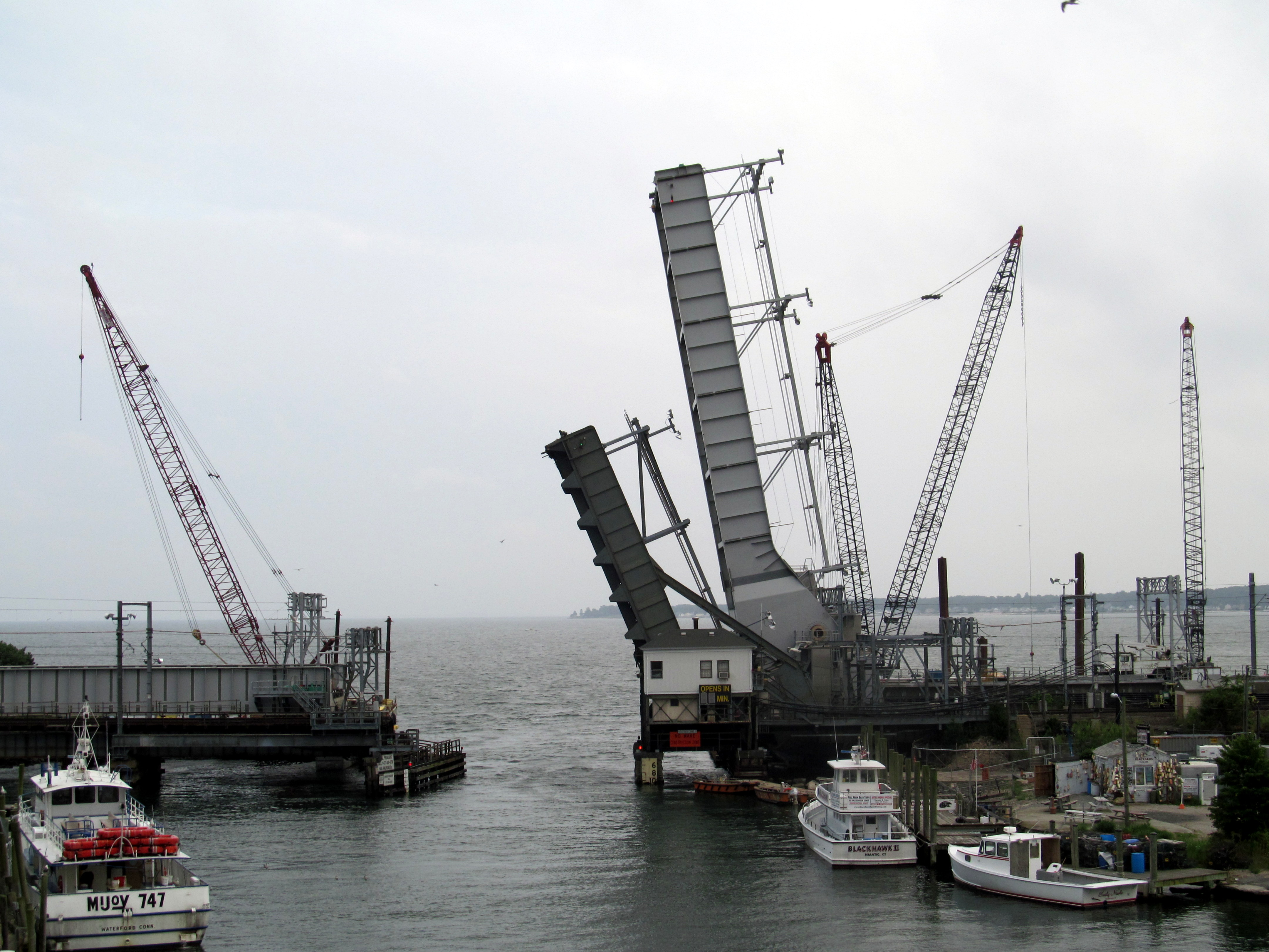 The 1907 and 2012 Niantic River bridges in 2012, viewed from the Route 156 bridge. The increased span and clearance of the new span is clear.